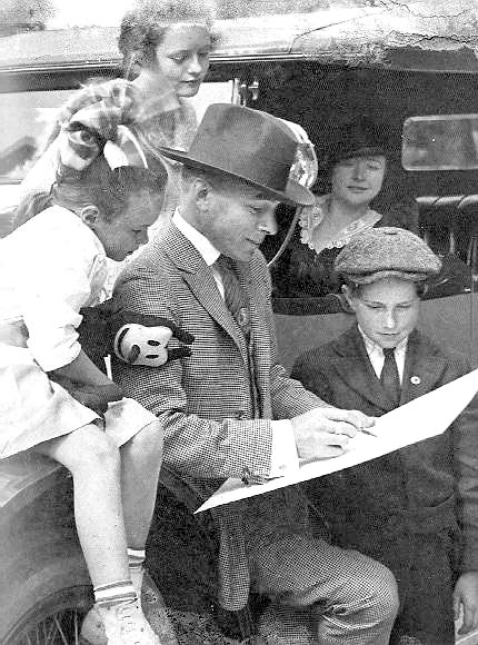 George Herriman with fans.